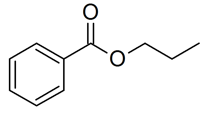 Chemical structure of Propyl benzoate